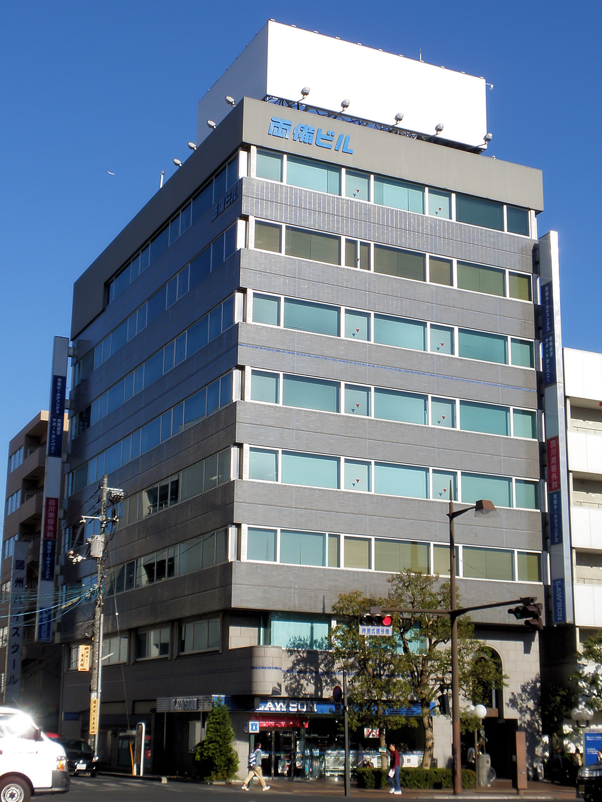 Ryobi Holdings Headquarters, Okayama.